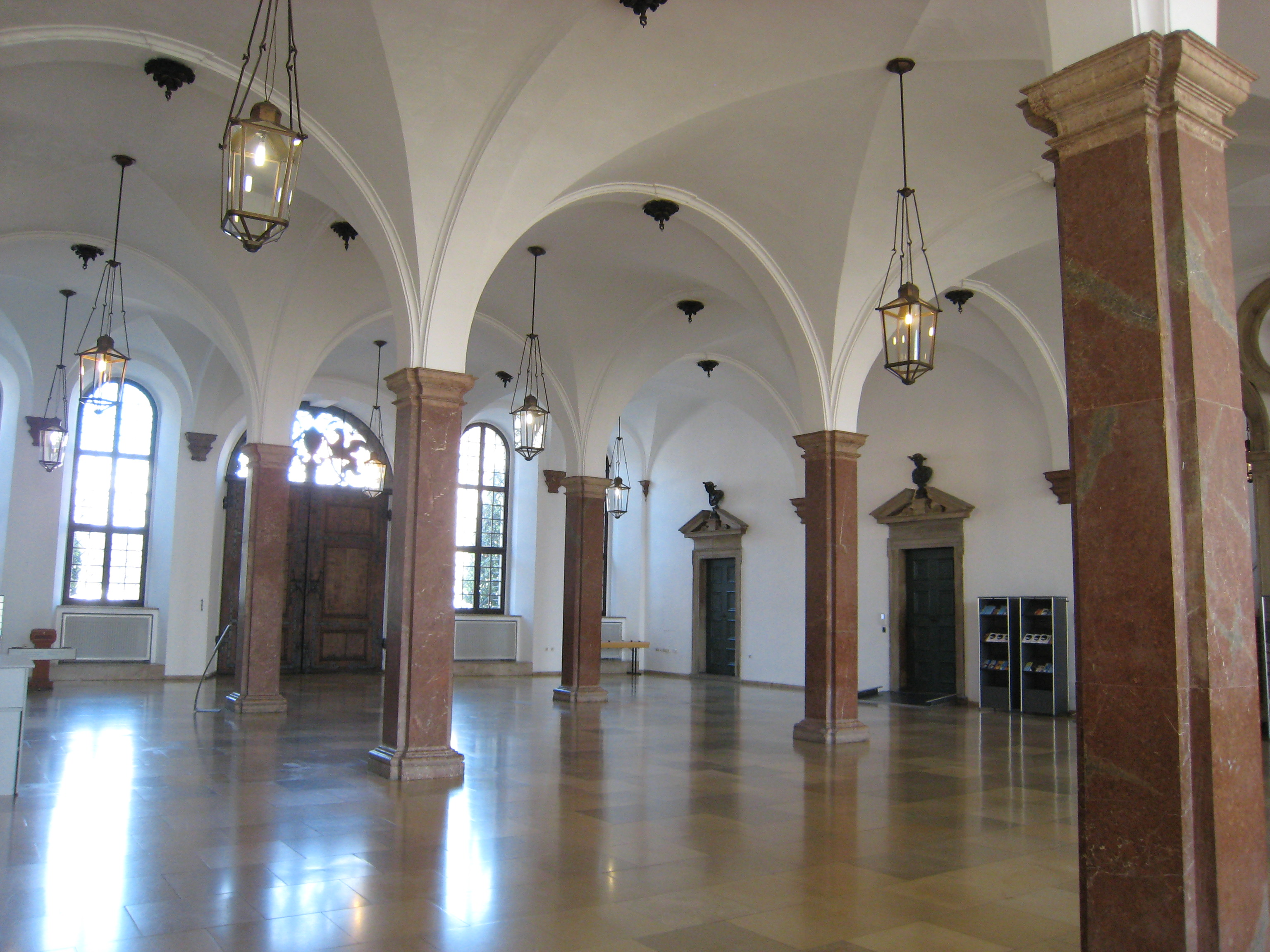 Columns and ribbed vault in the ground floor of Augsburg's town hall